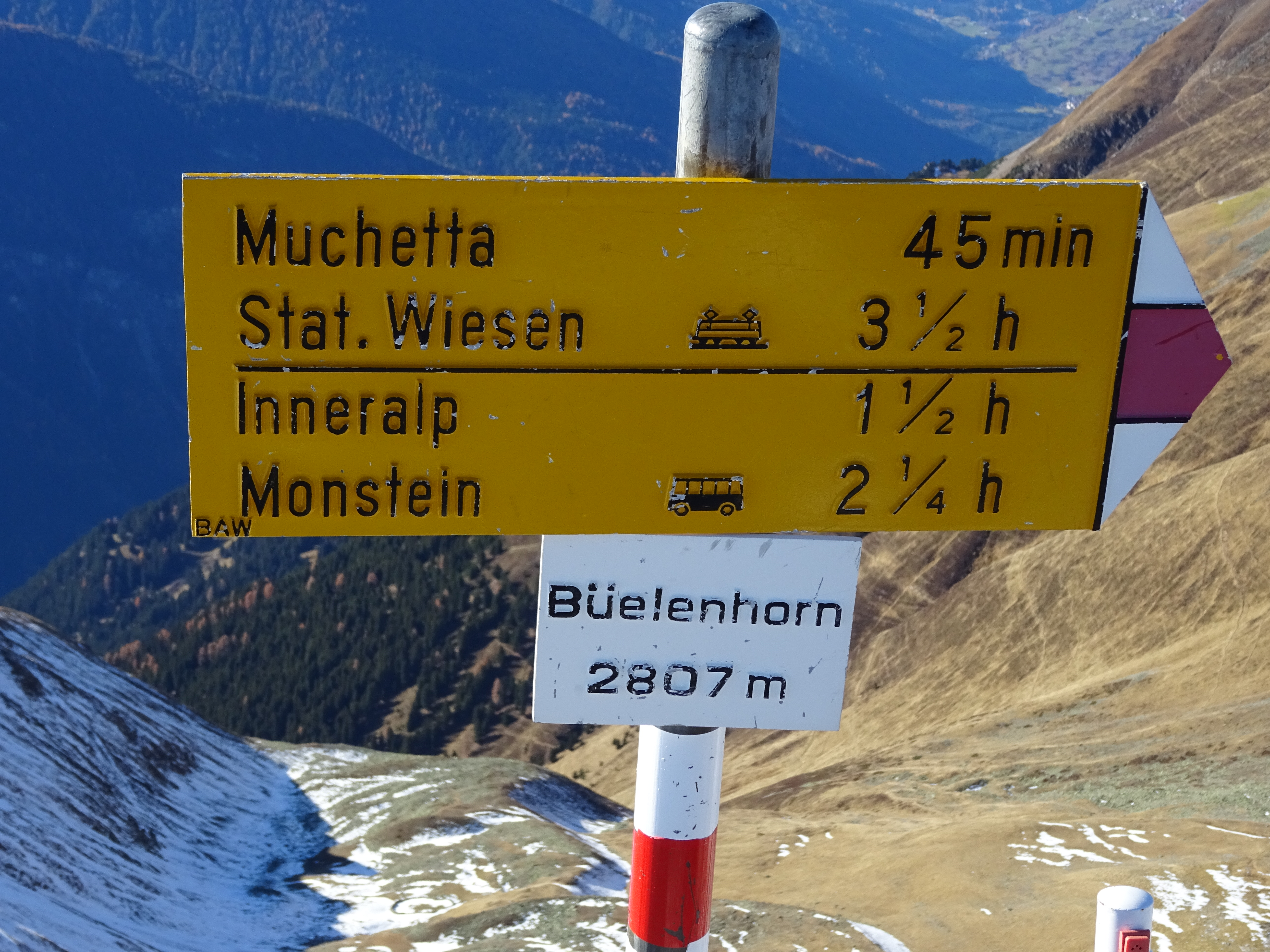 Fingerpost on Büelenhorn (Davos / Bergün/Bravuogn, Grisons, Switzerland)